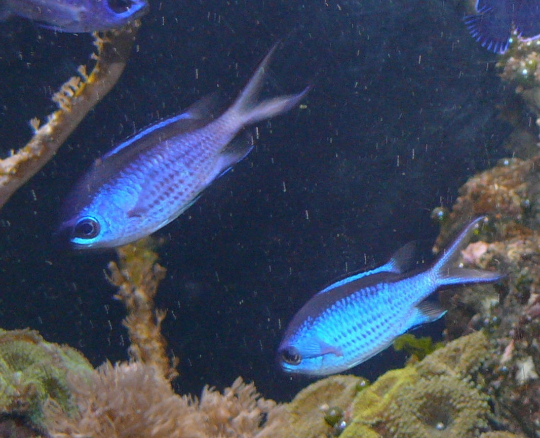 Chromis cyanea